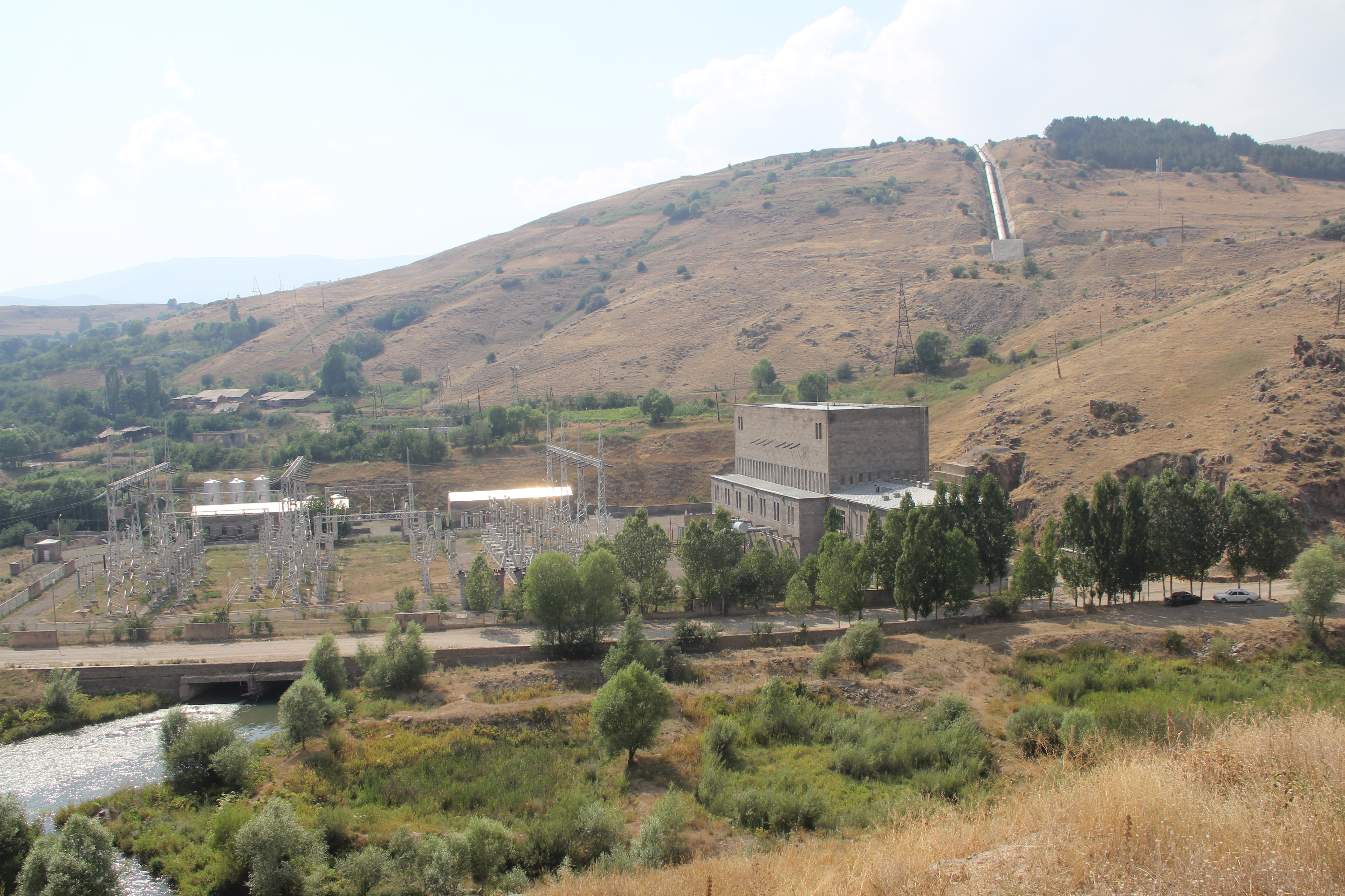 Spandaryan HPP